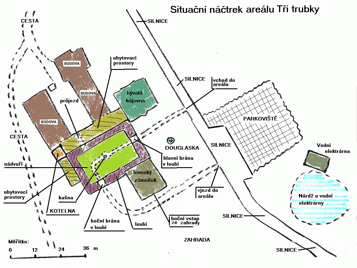 Area of hunting lodge Tři trubky ("Three tubes") in Brdy, Czech Republic. Situational sketch.